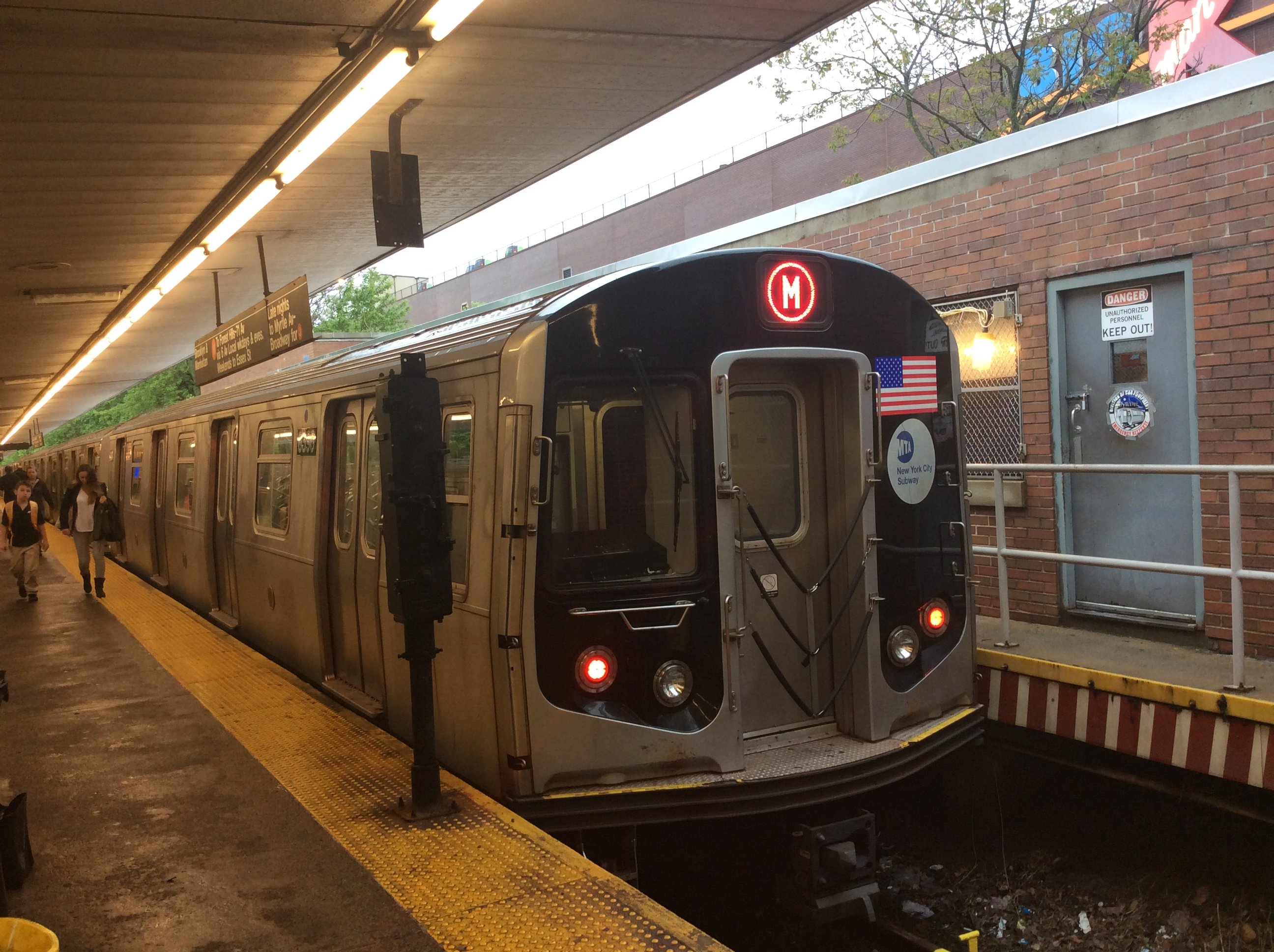 The Metropolitan Avenue subway station near Metro Mall in Queens, May 2017